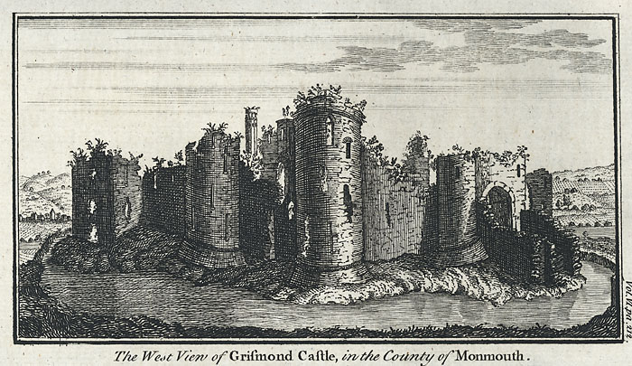 A view of the ruins of Grosmont Castle.